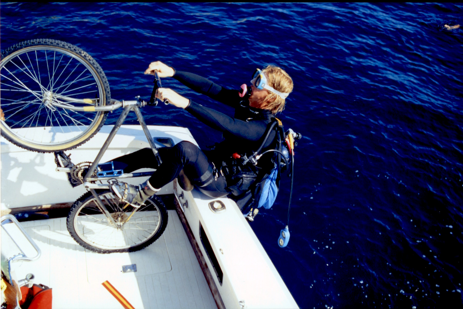 Jason Borner plunges backwards off a boat to become the world's first underwater mountain biker, Costa Rica, 1994. Photograph by Patty Mooney, Crystal Pyramid Productions, San Diego, California.